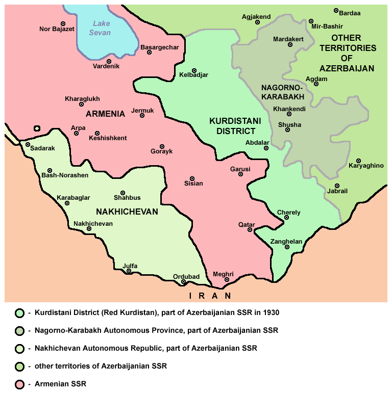 Kurdistani District (Red Kurdistan), Nagorno-Karabakh and Nakhichevan Autonomous Republic in 1930.